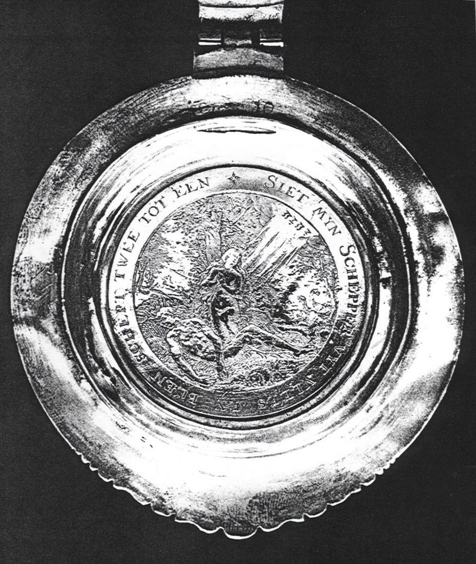 Marriage medal given to Sarah Rapapje, first child of European parentage born in New Netherlands, on the occasion of her wedding to Hans Hansen Bergen, 1639. Medal later inserted into top of tankard, subsequently donated by her descendants to the Brooklyn Museum, 1926.